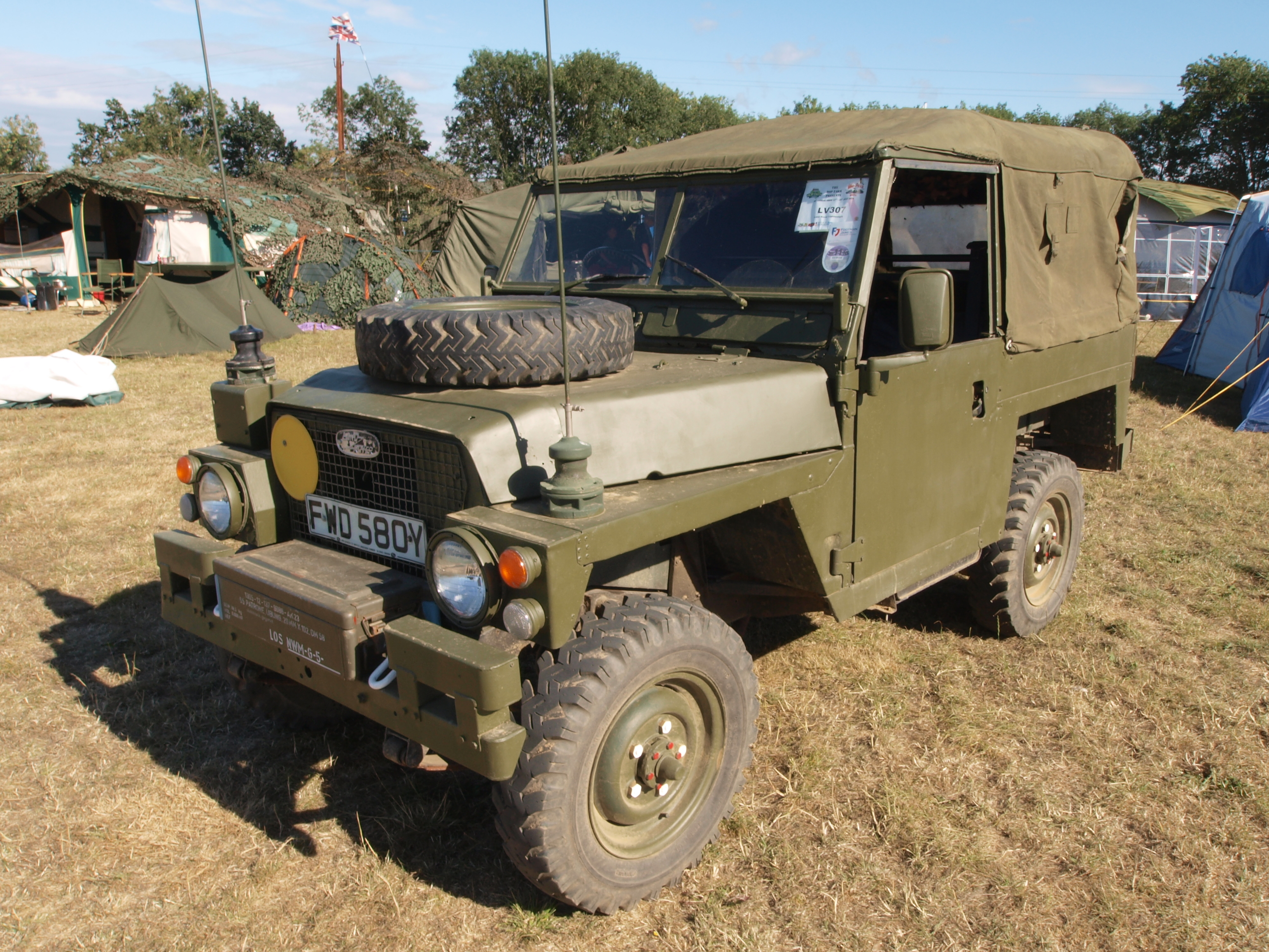 Land Rover Lightweight (1983) (owner Richard Hill ).